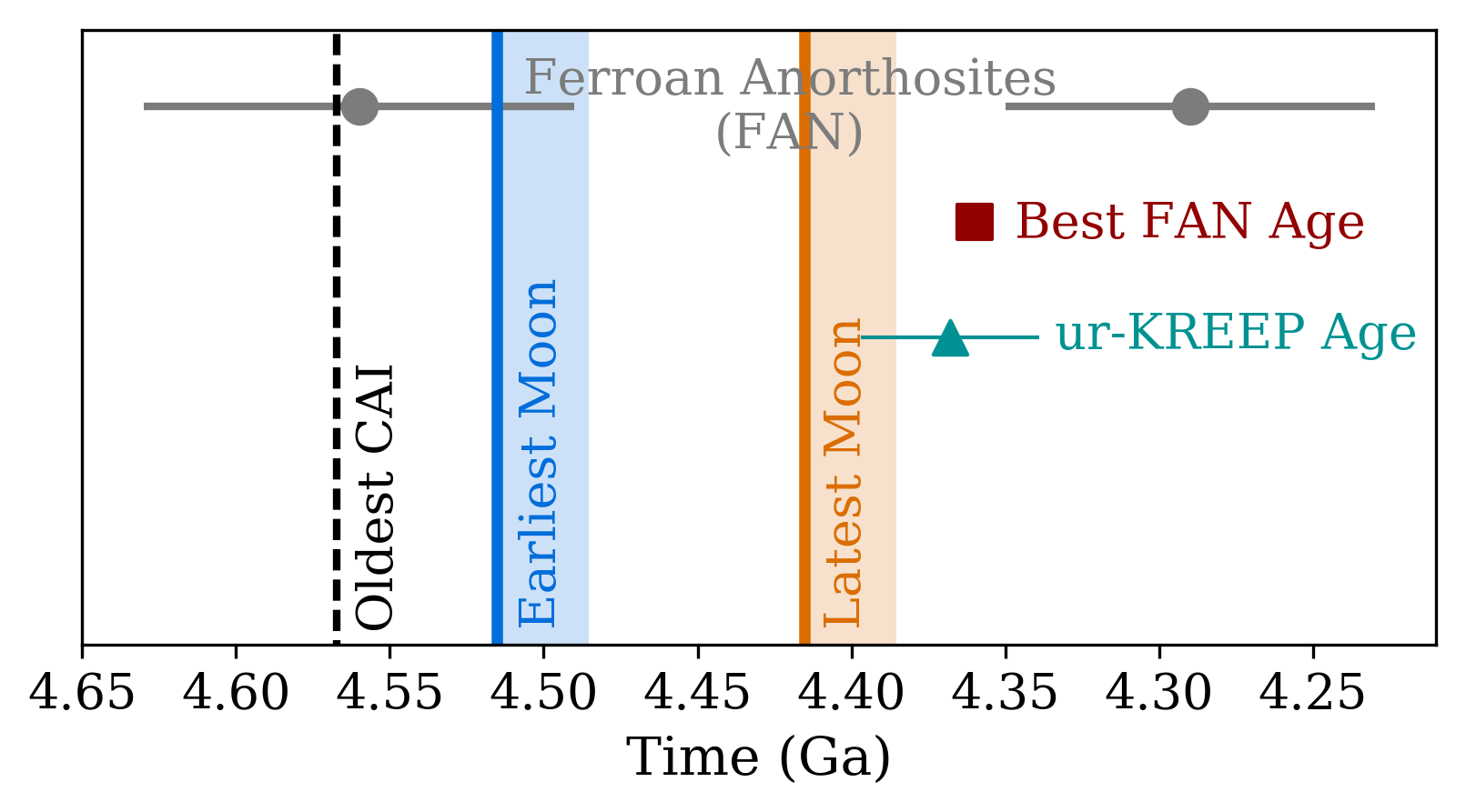 Dashed black line shows the oldest calcium-aluminum-rich inclusion (CAI) (Connelly et al., 2012), which is a proxy for age of the Solar System. Estimates for earliest and latest Moon formation times are shown in blue and orange lines respectively (Touboul et al., 2009). Lighter colored rectangles show additional time required for LMO solidification using a simplified thermal model with the assumption of there being no additional heat sources (Perera et al., 2018). The most reliable FAN sample age is shown with a red square (error bars are smaller than the marker) and the best estimate for formation of the original KREEP layer at depth (i.e., ur-KREEP) is shown with a dark cyan triangle (Borg et al., 2015). Oldest (Alibert et al., 1994) and youngest (Borg et al., 1999) ferroan anorthosite (FAN) samples are shown by gray circles. To edit or recreate this figure, please see the open source code at